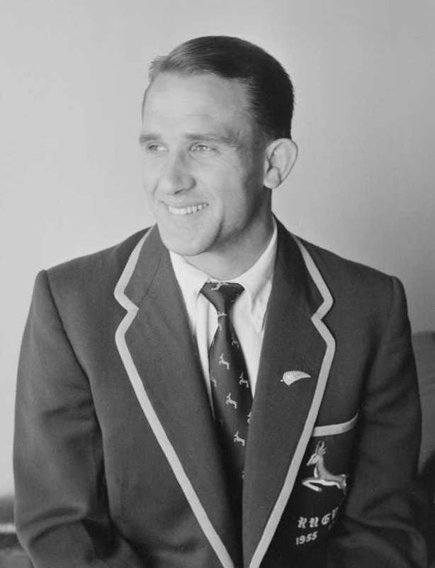 George Philip Lochner, flanker, Springbok rugby team during tour of New Zealand